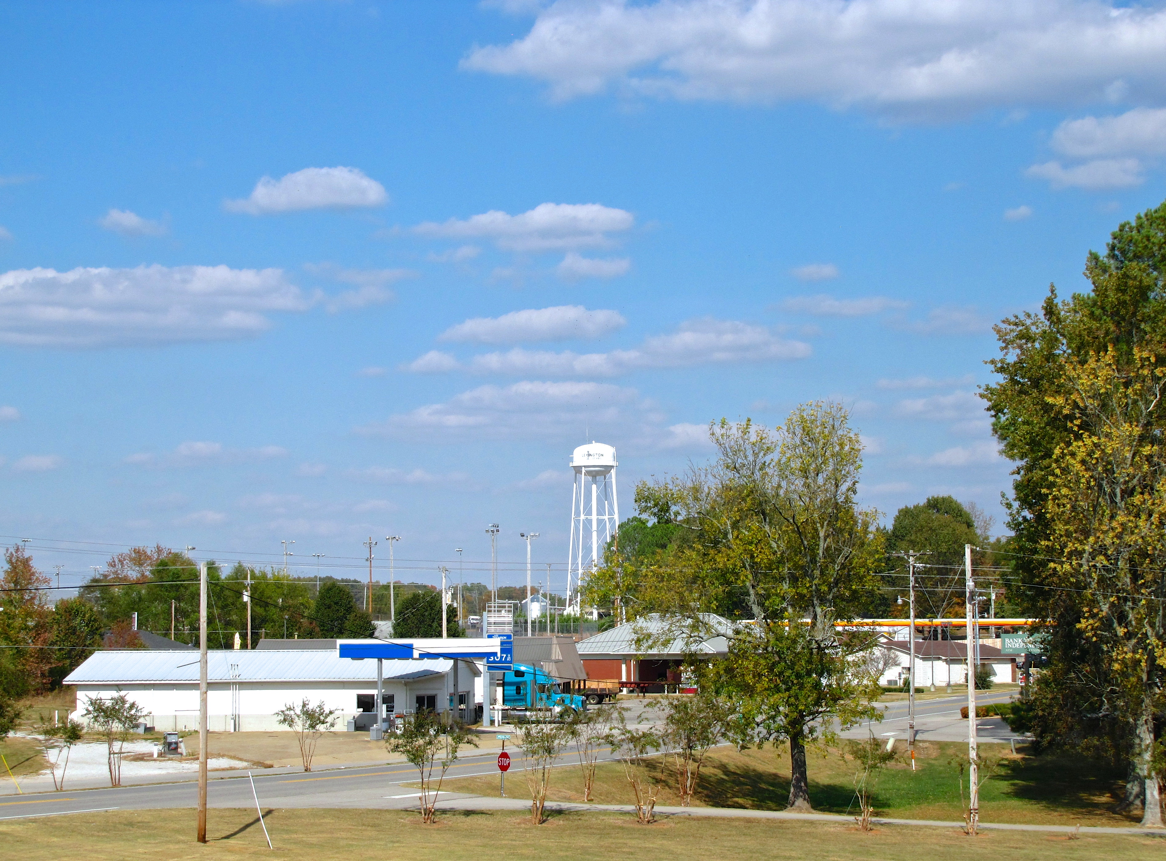 Lexington, Alabama, United States, viewed from the Lexington Fire Department parking lot. State Route 101 is below.